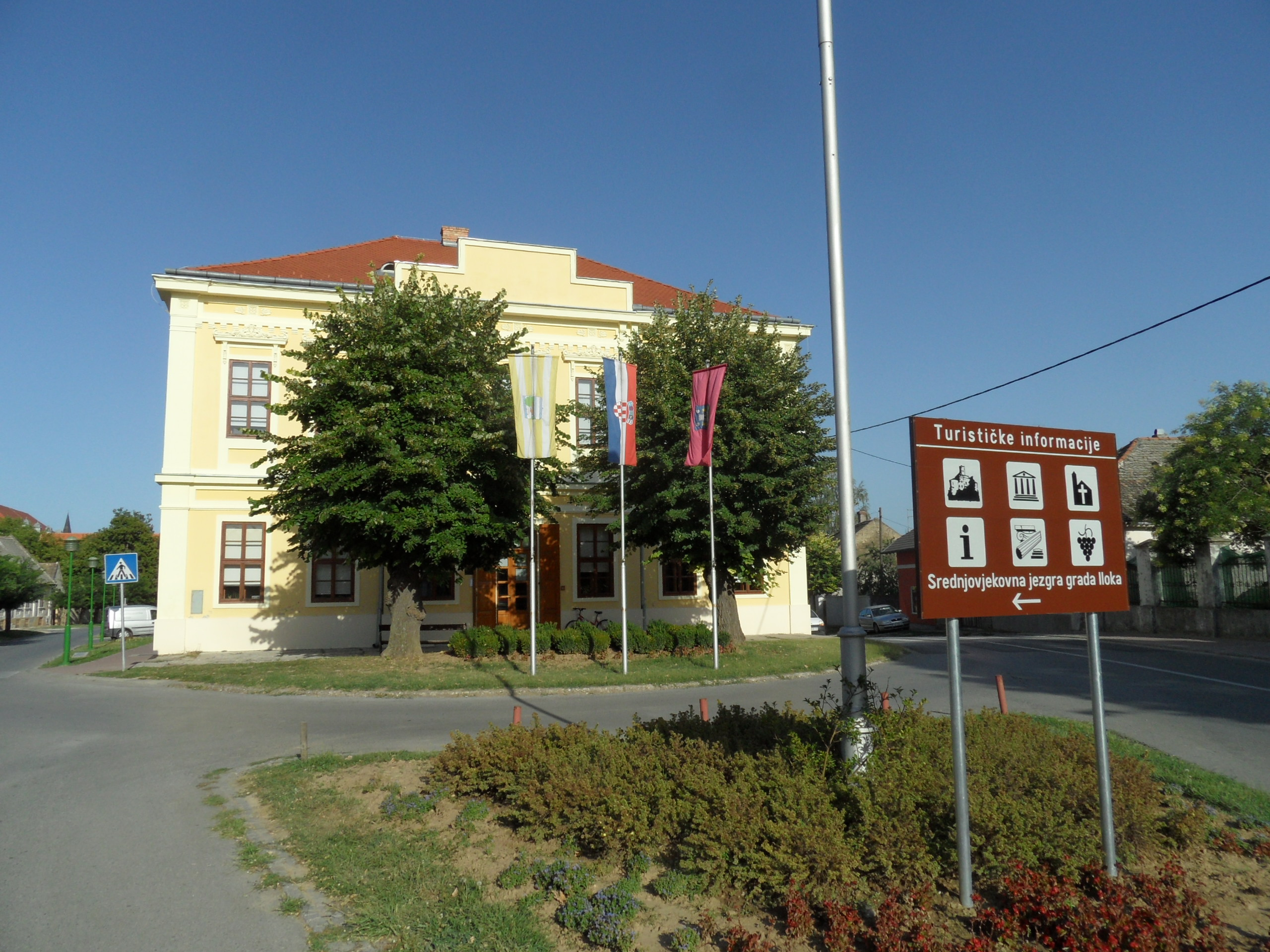 Ilok (Croatia), Town hall